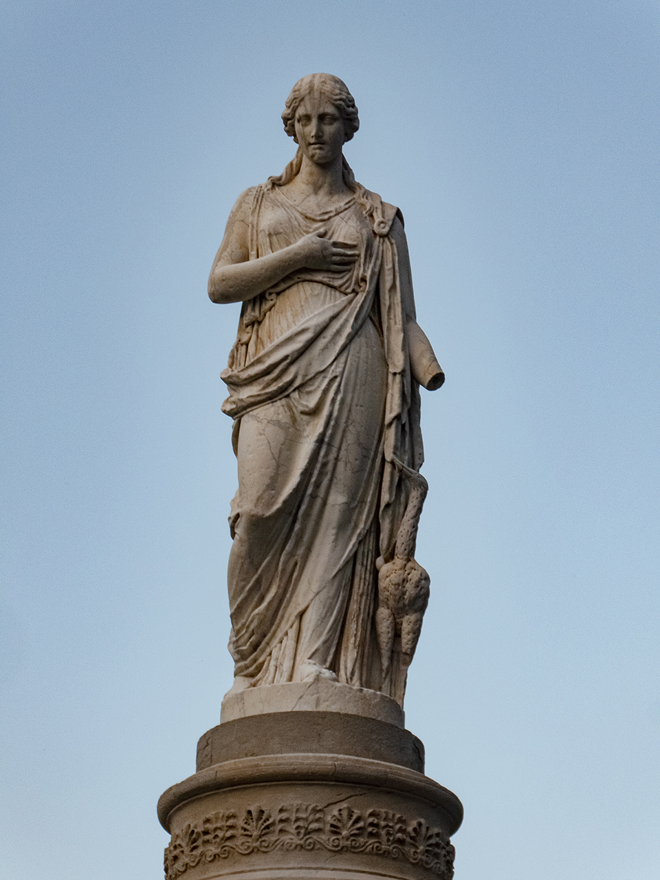 Saronno Italy - Monument "alla Riconoscenza" best known as "La Ciocchina"